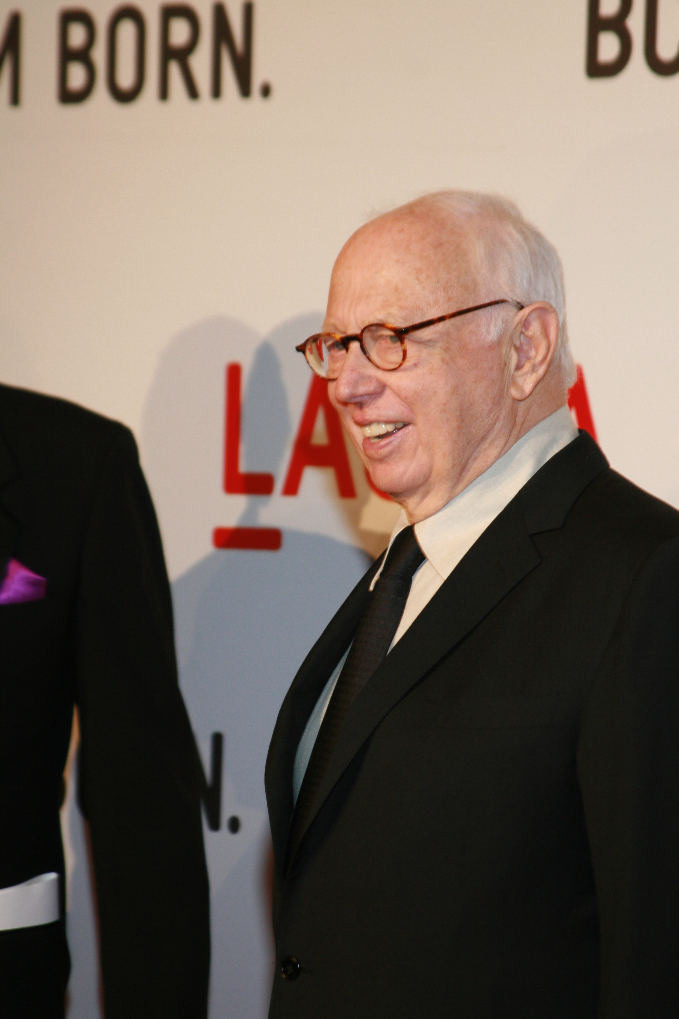 Ellsworth Kelly arrives at LACMA’s Gala Opening of the Broad Contemporary Art Museum on February 9, 2008 in Los Angeles, CA.